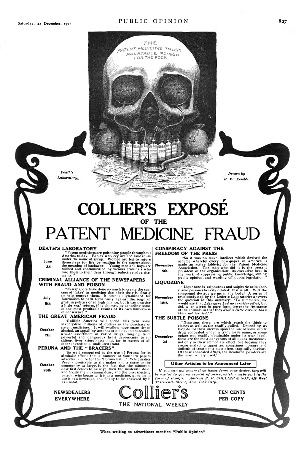 Display advertisement for Collier's magazine's coverage of the patent medicine fraud, culminating in "The Great American Fraud"